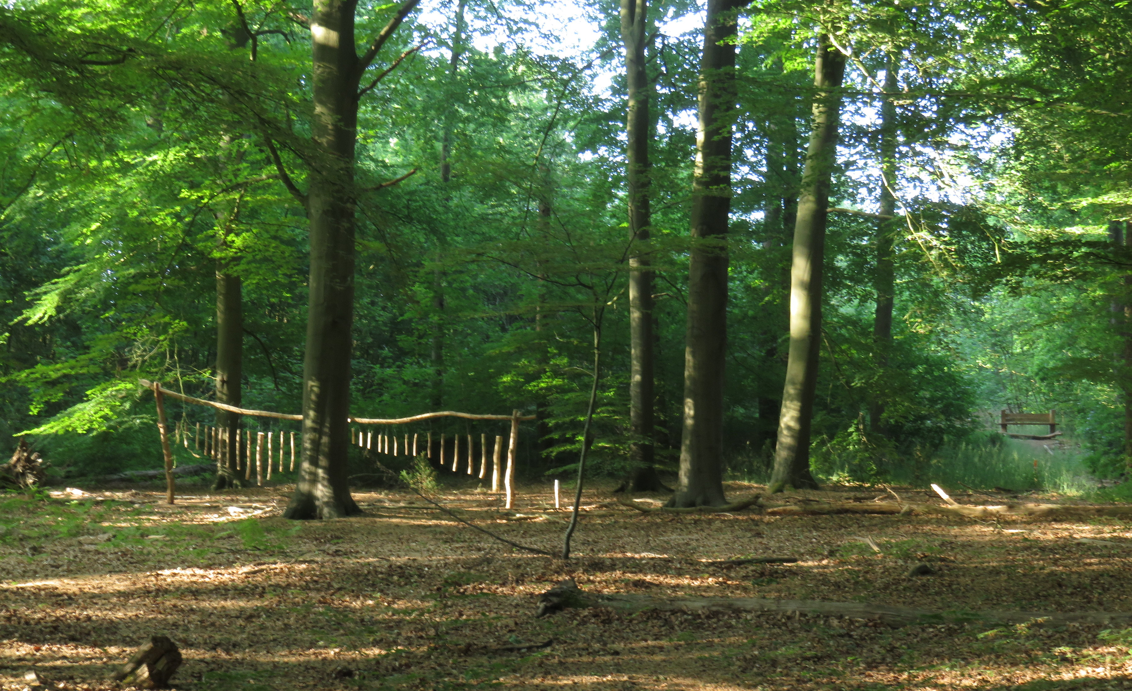 Overview in Arboretum Oostereng, Wageningen (NL) with giant xylophone